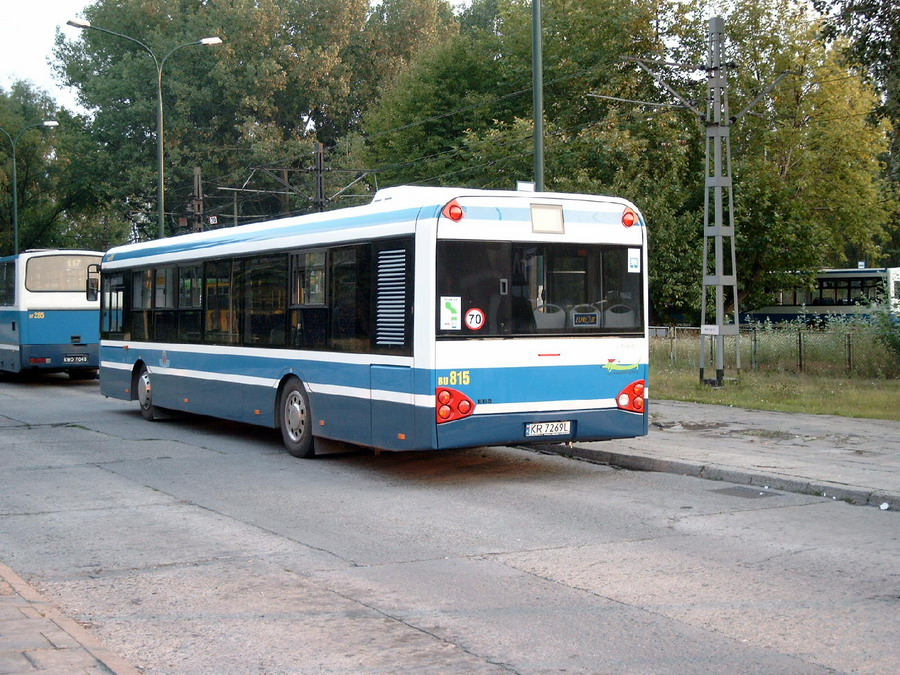 Solaris Urbino 12 Mk2 bus (#BU815), in Kraków, Poland. Terminus Kombinat. Year built 2004, MPK Kraków operator.